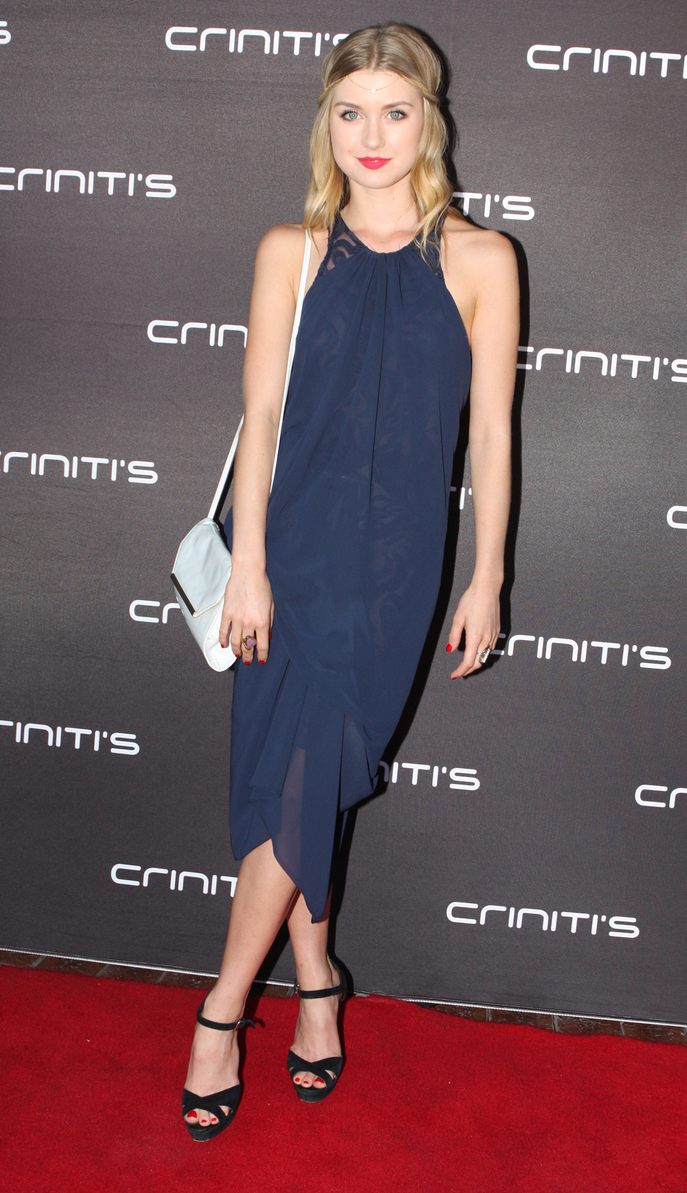 Criniti's celebrated their tenth birthday and rolled out the red carpet tonight. Celebrity guests were treated to their ten most popular dishes. Media... Walking the red carpet and celebrating Criniti's milestone birthday will be Australian television personality Charlotte Dawson, Australian singer Ricki Lee Coulter, Australian model Rachael Finch, former rugby league player Jason Stevens, Roosters star Anthony Minichiello, as well as Home & Away stars Dan Ewing, Rhiannon Fish and Lisa Gornley, The Living Room's Barry Du Bois and Miguel Maestre, The Morning Show's Lizzy Lovette, MTV's Keiynan Lonsdale, Jason and Beck Stevens from Sydney Weekender, Michelle and Martin Walsh from Chadwicks, as well as player from Sydney FC, Manly Sea Eagles and the Roosters. The celebrations will continue as one lucky person will win an all-expenses paid trip to Rome worth over $10,000, plus a three litre bottle of Veuve Clicquot. 2012 X Factor winner, Samantha Jade, will be entertaining guests on the night, with an intimate performance of her number one hit single What You've Done to Me. Celebs: Charlotte Dawson, Ricki Lee Coulter, Rachael Finch, Anthony Minichiello, Dan Ewing and more. Websites Criniti's Eva Rinaldi Photography Eva Rinaldi Photography Flickr